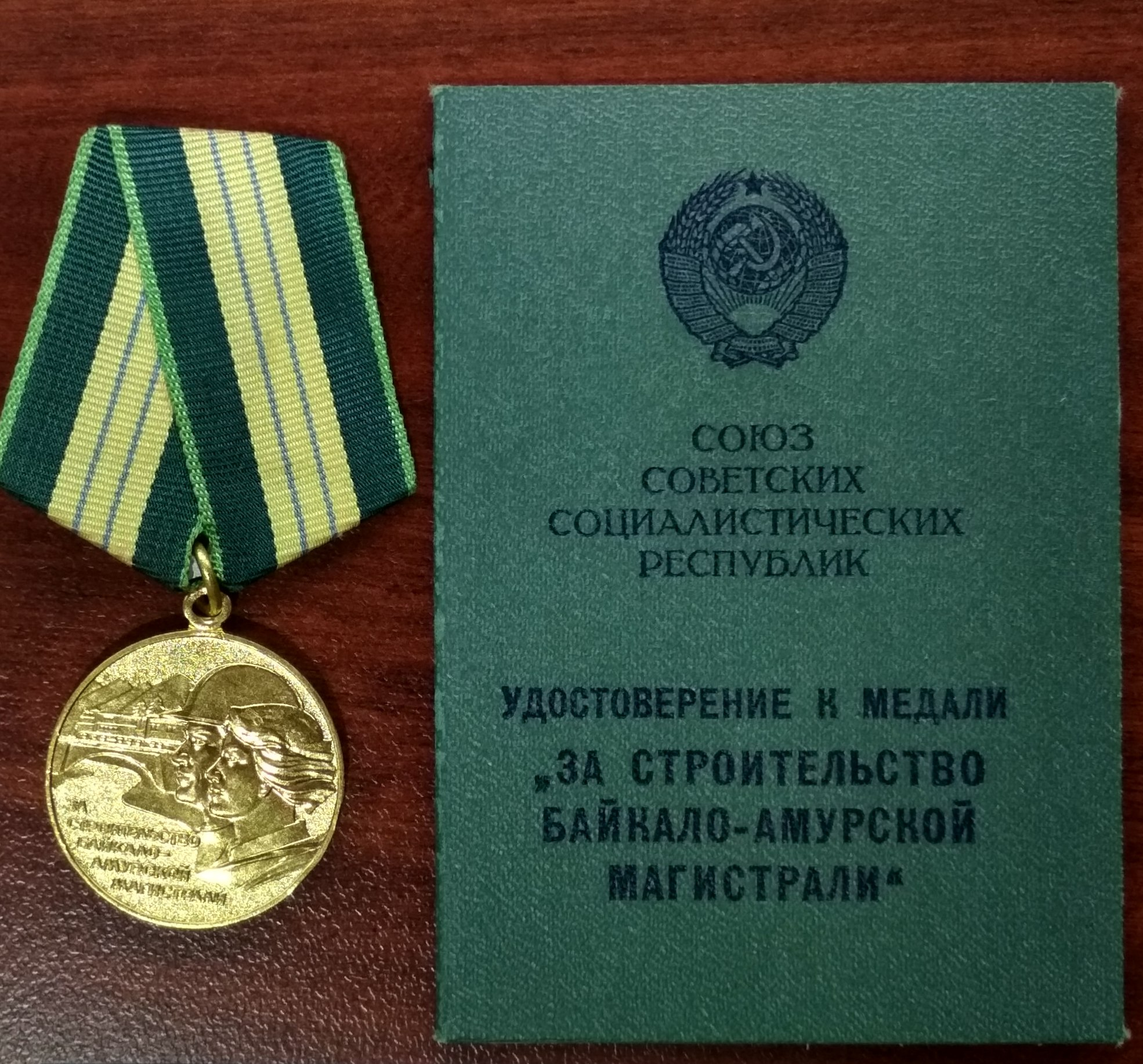 Medal "For the construction of the Baikal-Amur Mainline" and a certificate for the medal.